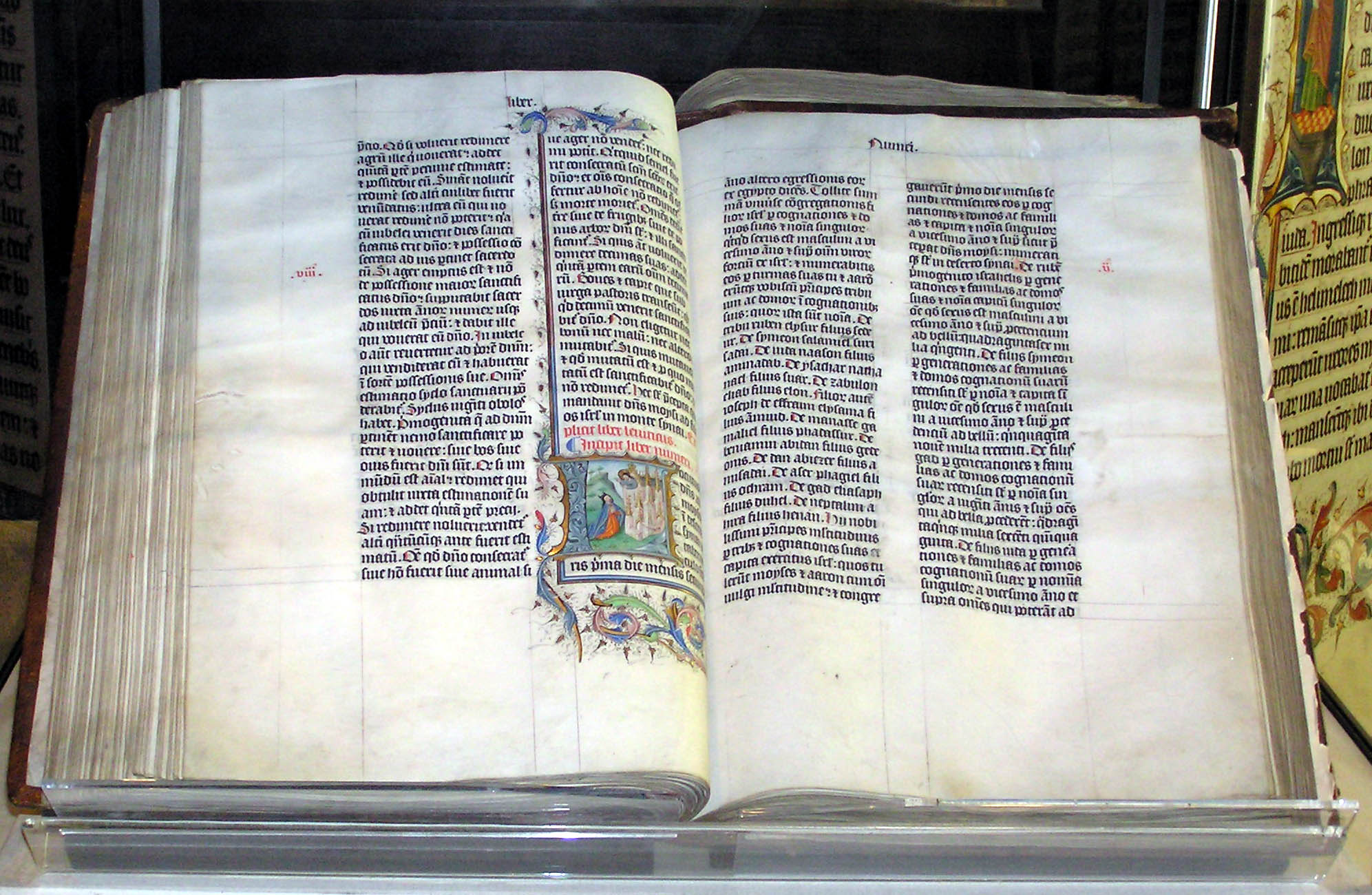 A Bible handwritten in Latin, on display in Malmesbury Abbey, Wiltshire, England. The Bible was written in Belgium in 1407 AD, for reading aloud in a monastery.